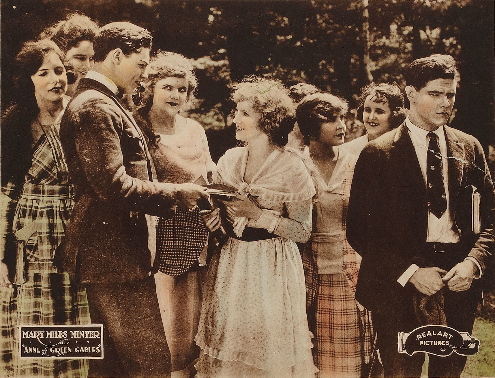 Anne of Green Gables (1919) is a silent film directed by William Desmond Taylor based upon the novel, Anne of Green Gables by Lucy Maud Montgomery. This version is notable for having been adapted by famed female screenwriter Frances Marion. This is a lobby card for the film.